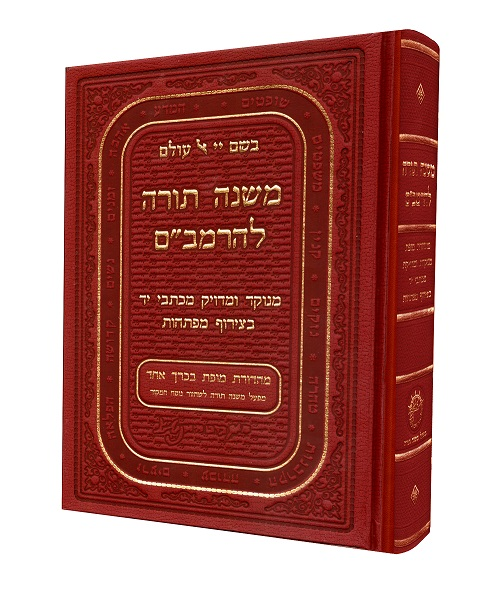 Mishne Torah in 1 volume